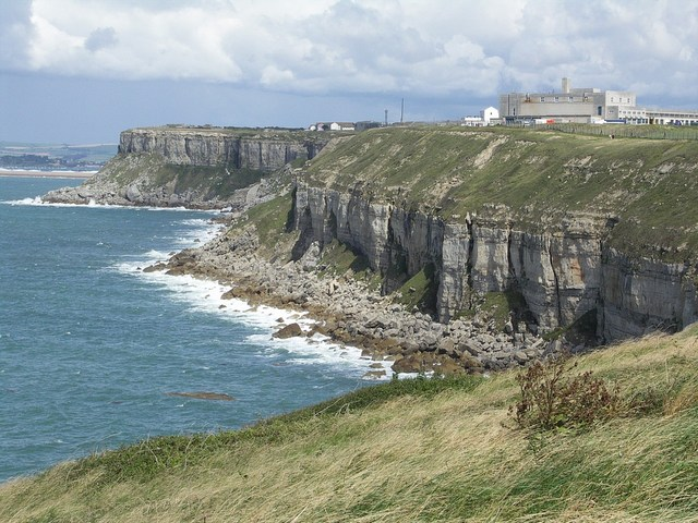 Wallsend Cove This steep-cliffed cove is situated on the western coast, between the village of Southwell and Portland Bill.